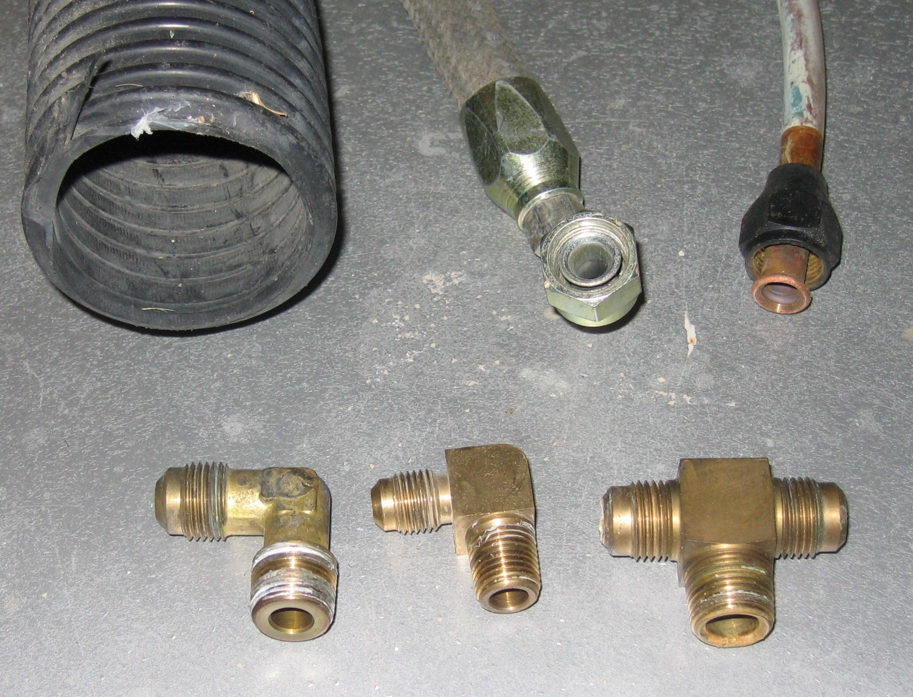 Autogas lines and fittings